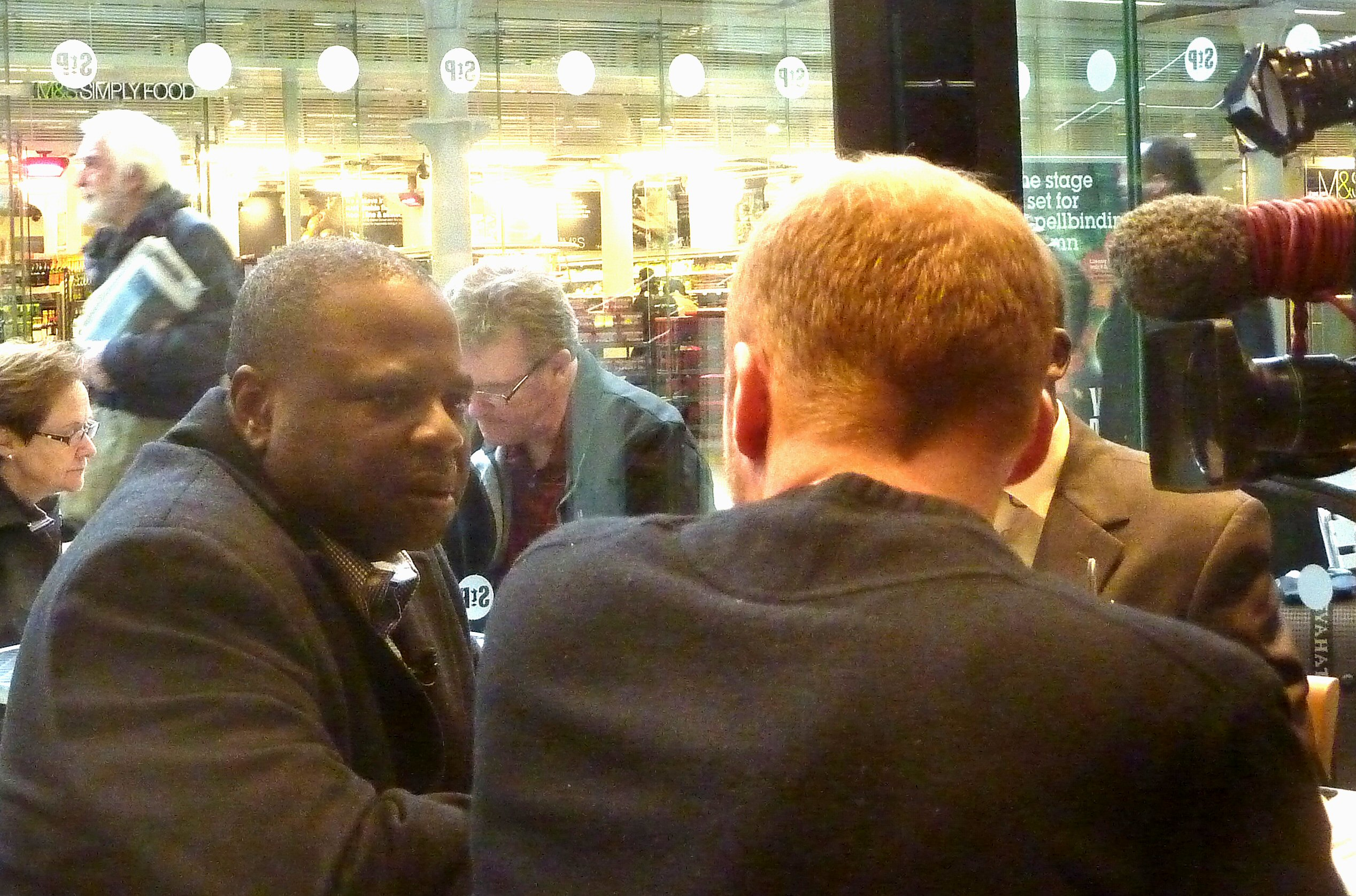 Amos Adamu being interviewed by BBC TV at St Pancas Station, London, Oct 21st 2010